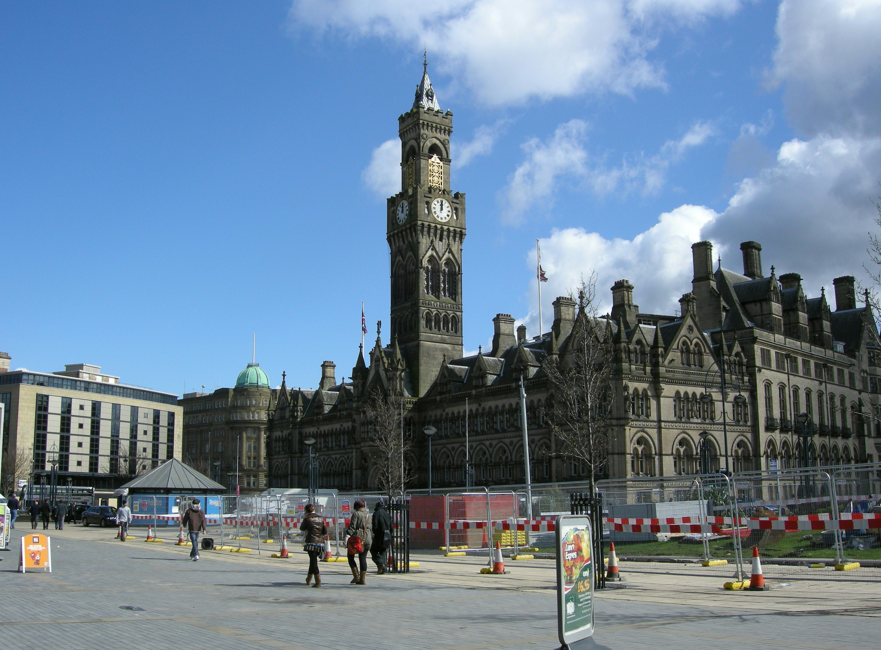 View of city of Bradford, Yorkshire, England, showing Bradford City Hall